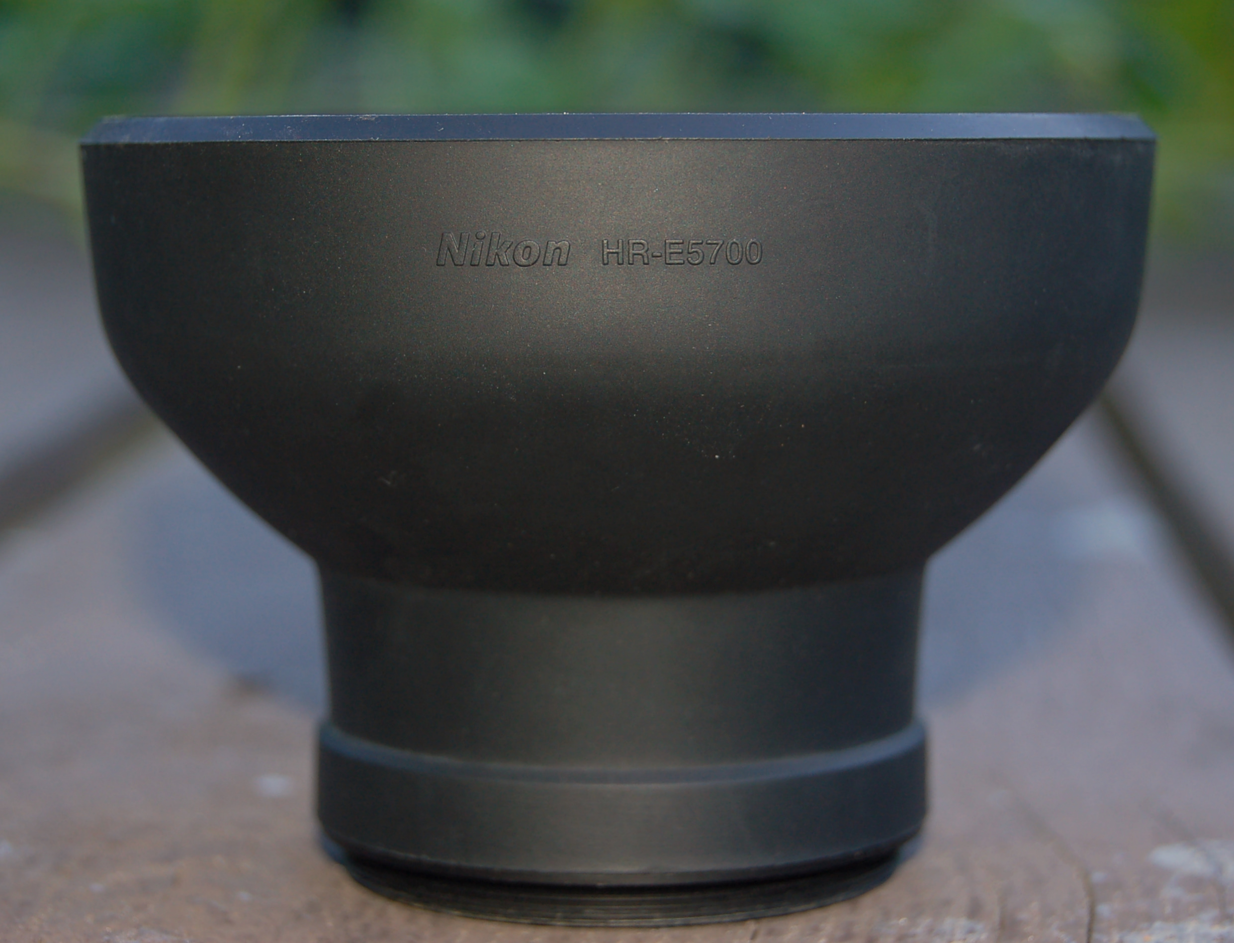 A photograph of the Nikon HR-E5700 Lens Hood for the Nikon Coolpix 5700 and Nikon Coolpix 8700 digital cameras.